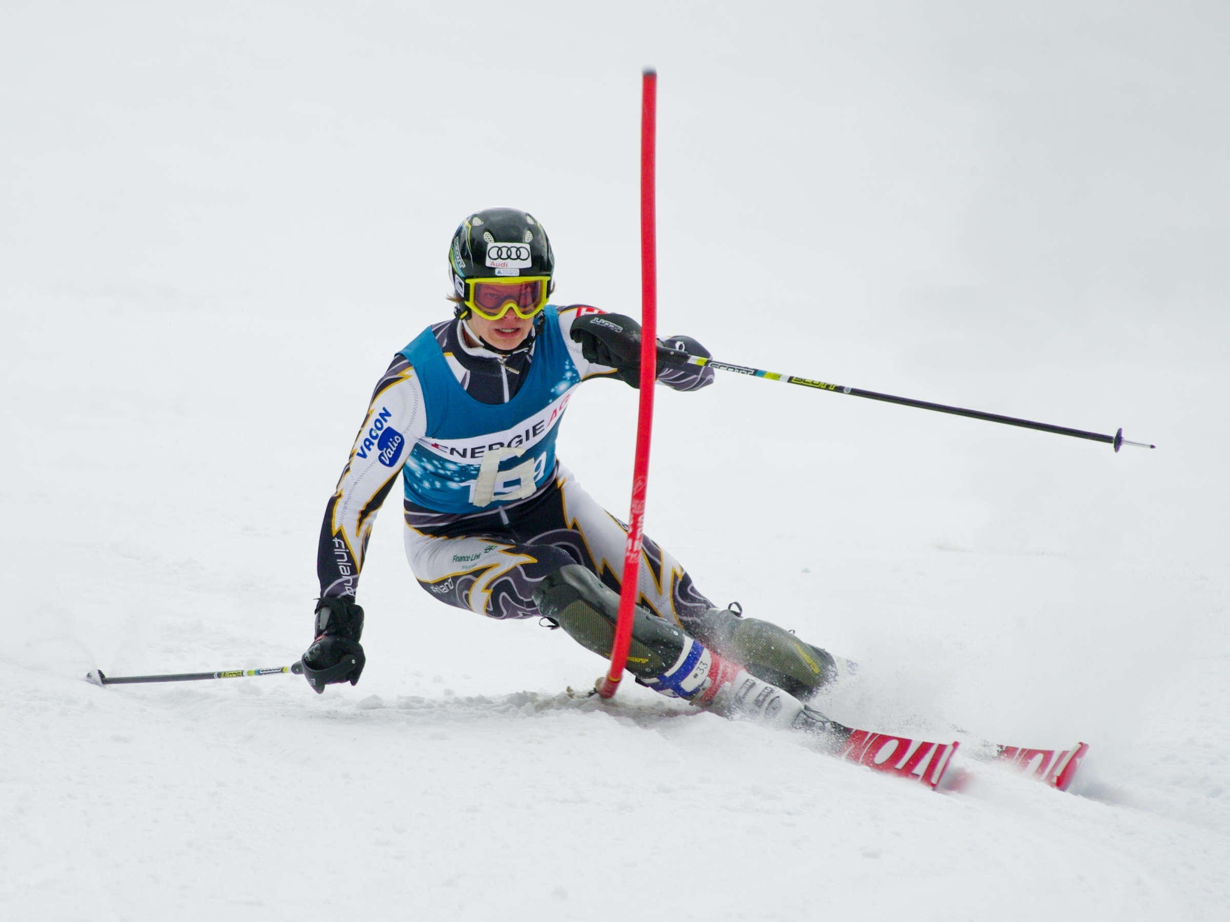 Finnish alpine skier Victor Malmström in the second run of the FIS Slalom in Hinterstoder, Austria, on 10 March 2010.